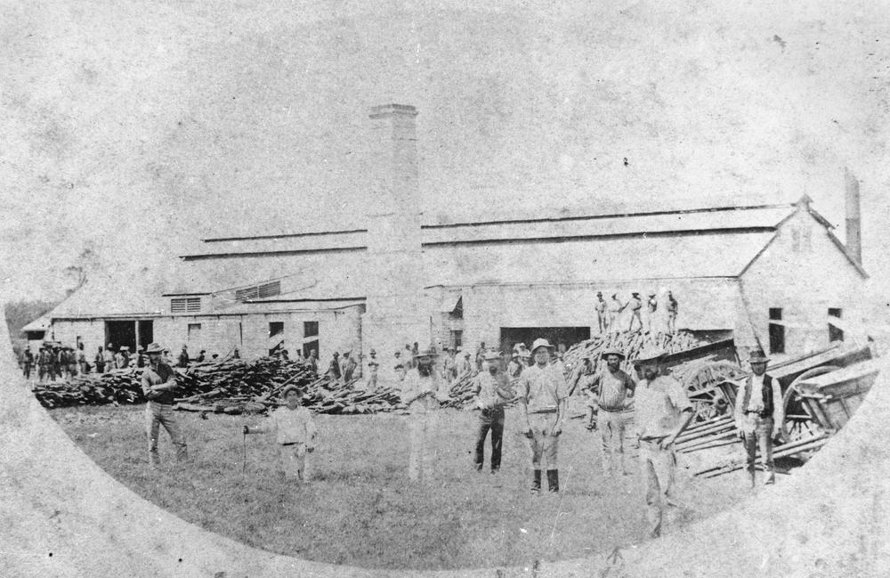 Mill workers infront of Sharon Sugar Mill, Bundaberg, ca. 1890 A sugar refinery at approximately 8 kilometres out of Bundaberg towards Gin Gin.